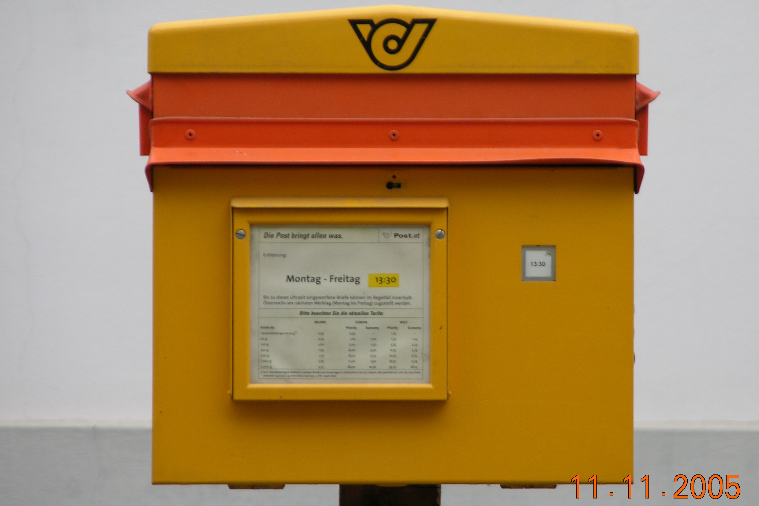 Postbox of austrian Post service (2005)